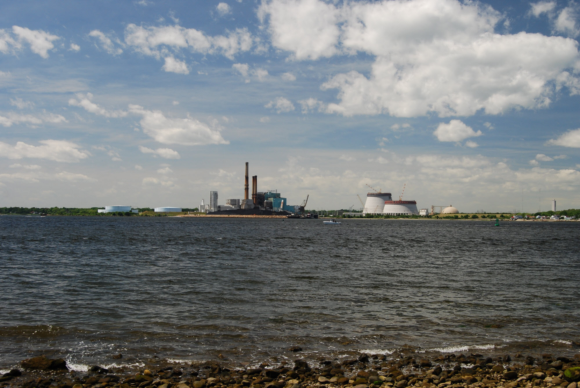 View of Mount Hope Bay from Fall River, Massachusetts, with Brayton Point Power Plant.